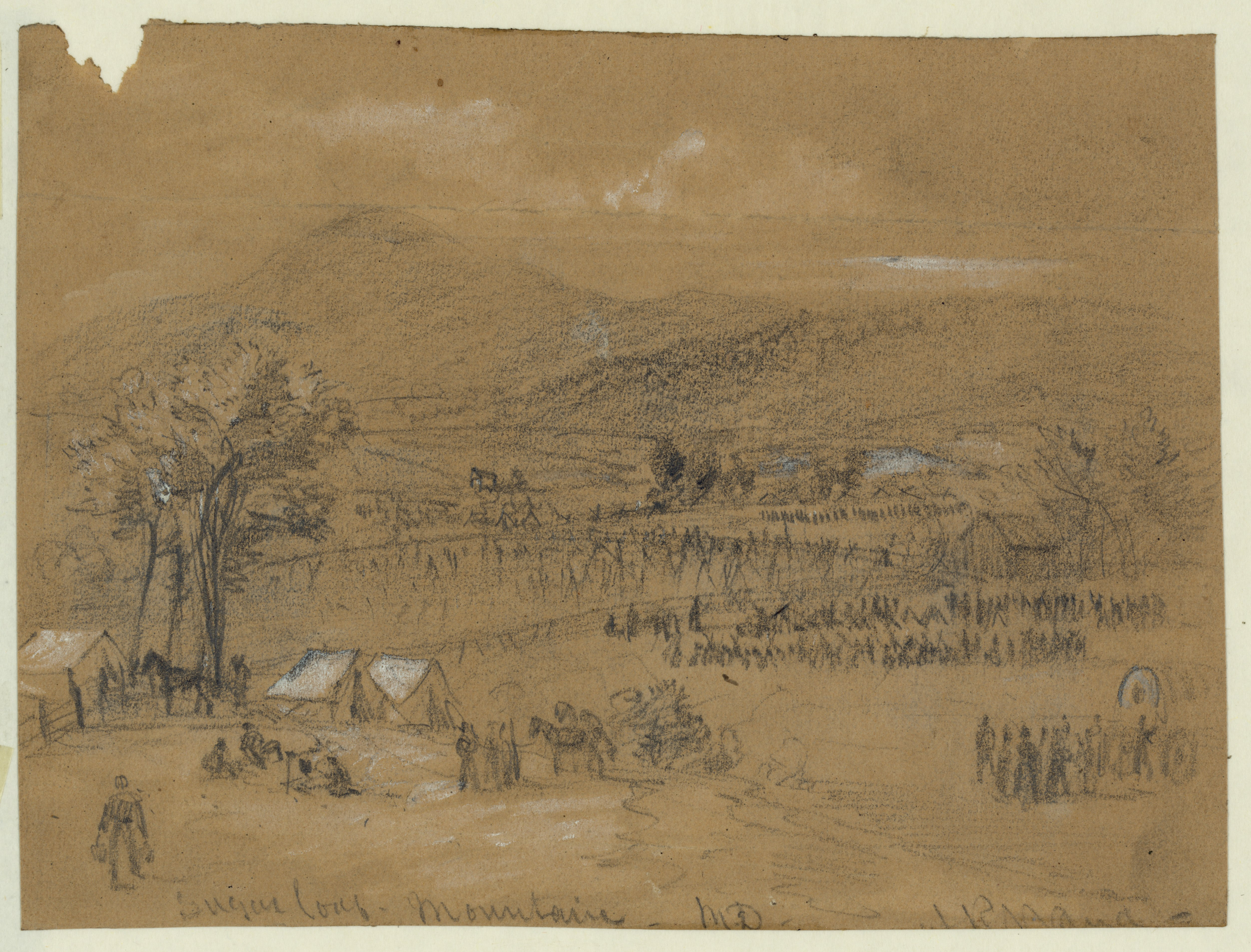 Title: Sugarloaf Mountain, MD. Abstract/medium: 1 drawing on tan paper : pencil and Chinese white ; 11.4 x 15.4 cm. (sheet).